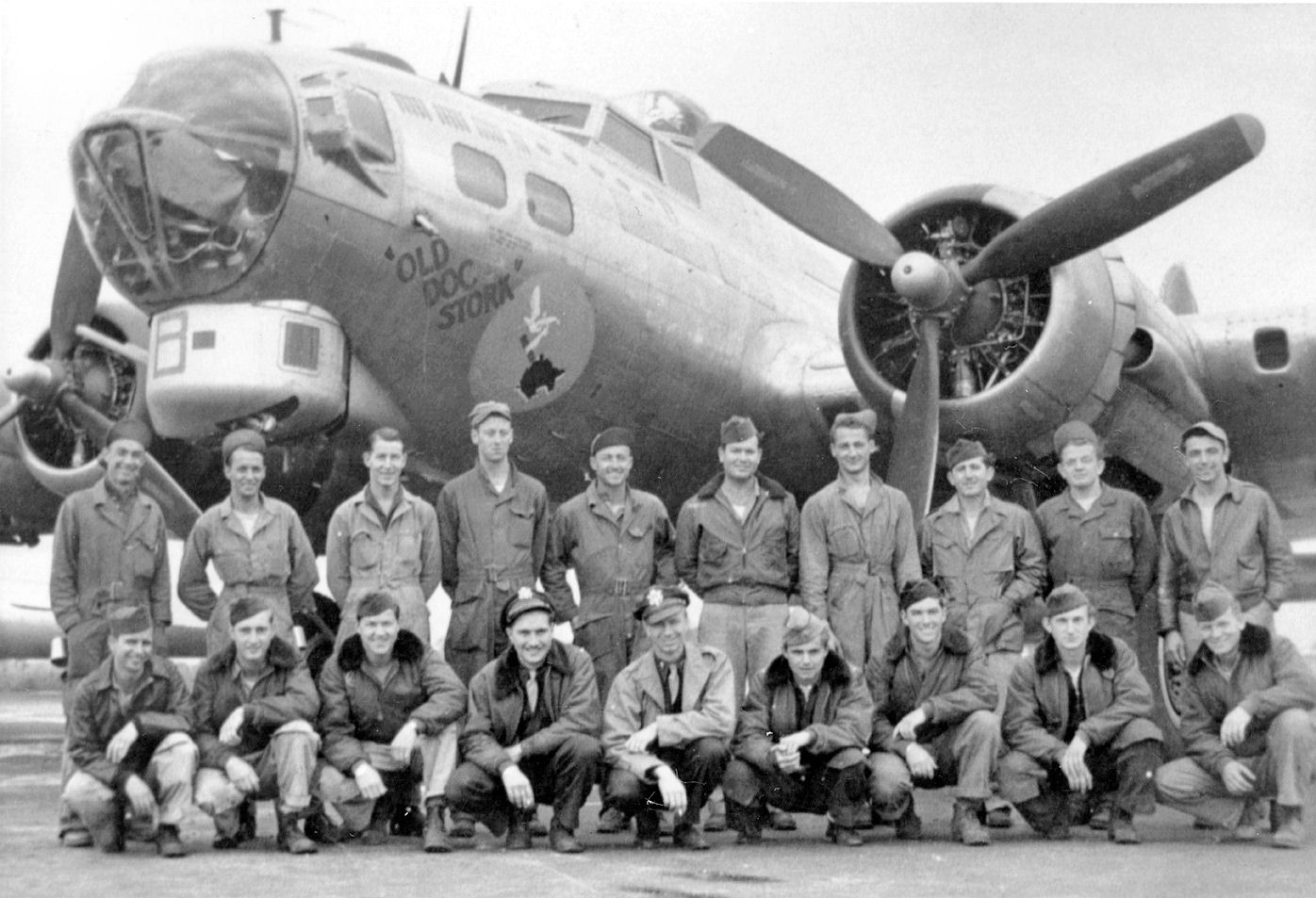 Combat and ground crew of the 490th Bomb Group with their B-17 Flying Fortress (serial number 44-83254) nicknamed "Old Doc Stork". Handwritten caption on reverse: 'B-17G "Old Doc Stork", 44-83254, B-, 850th BS, 490th BG.'